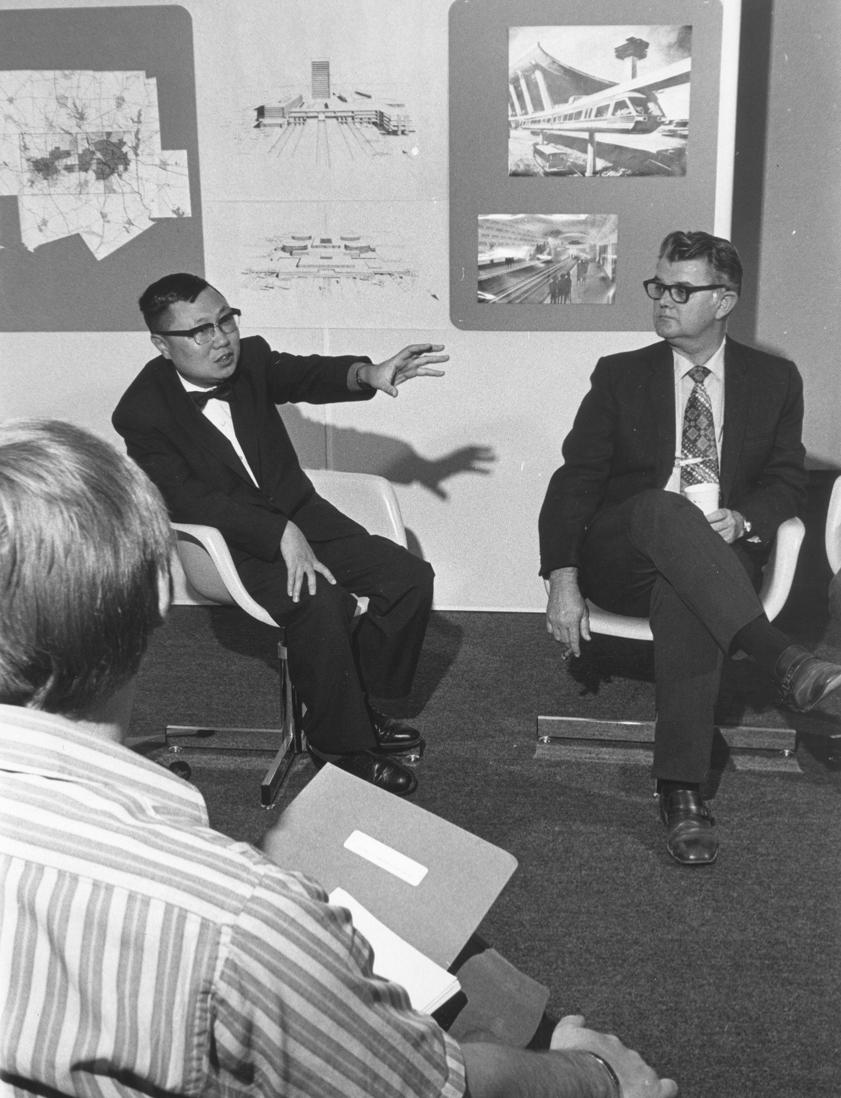 Meeting regarding proposed mass transit for Arlington, two men seated in front of monorail drawings.